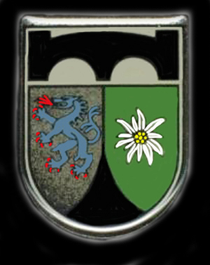 Staff & HQ Company 60th Engineers Brigade